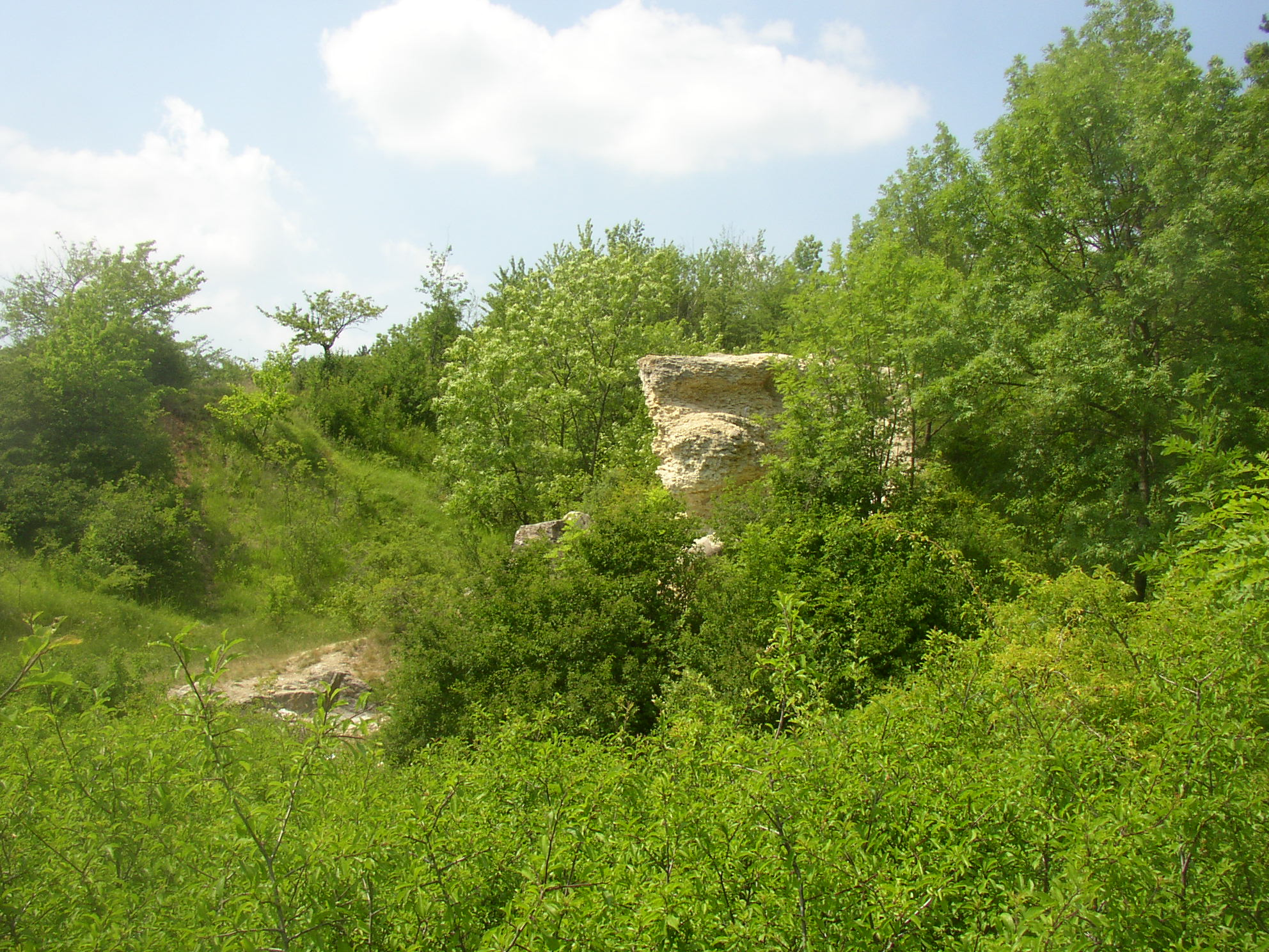 National Natural Monument Kaňk, cadastral area Sedlec u Kutné Hory, town of Kutná Hora, Czech Republic. Remains of an eroded coastal cliff from the Cretaceous epoch, Lower Turonian substage. An important paleontological site.